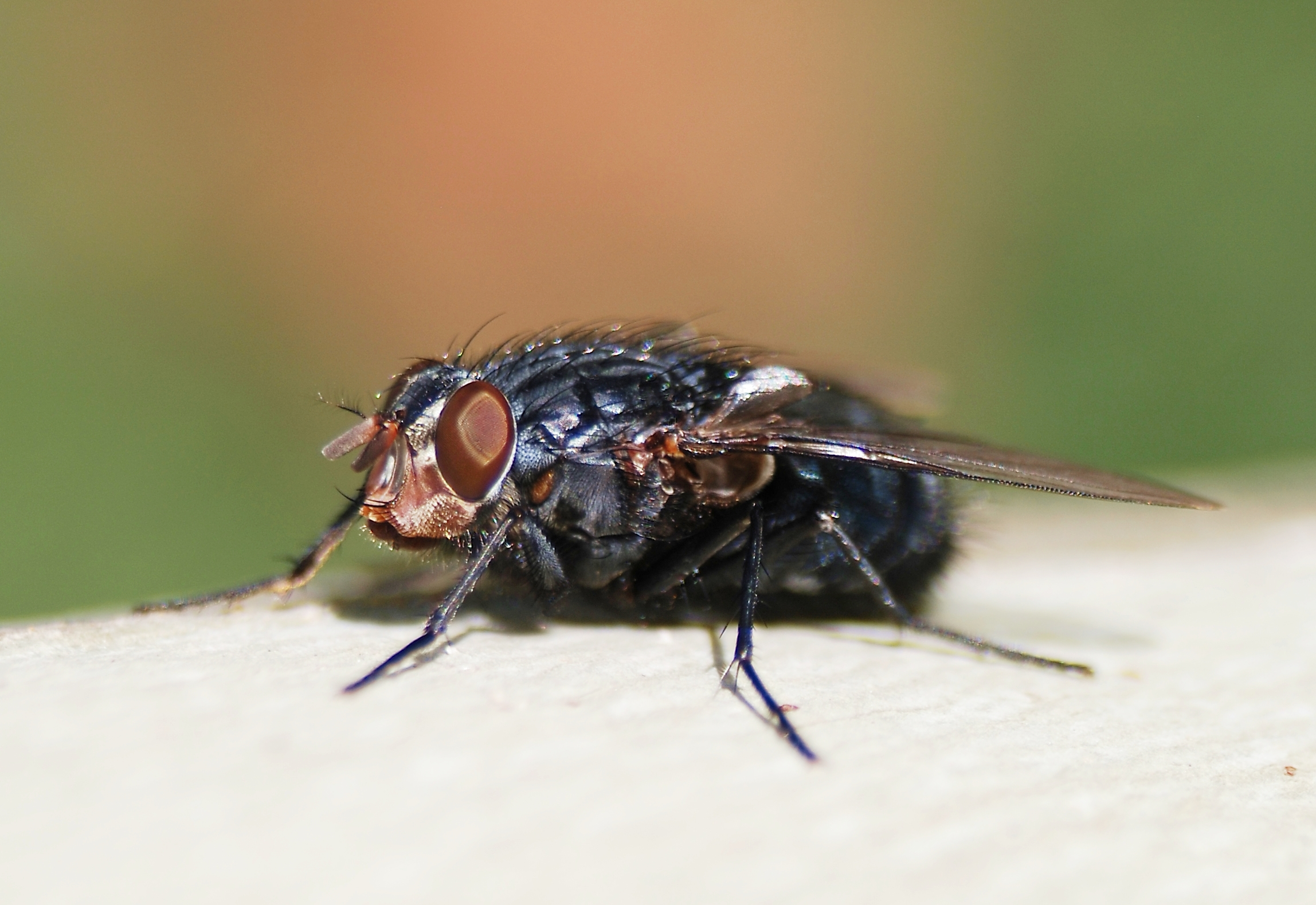 A blow-fly (Calliphora vicina)